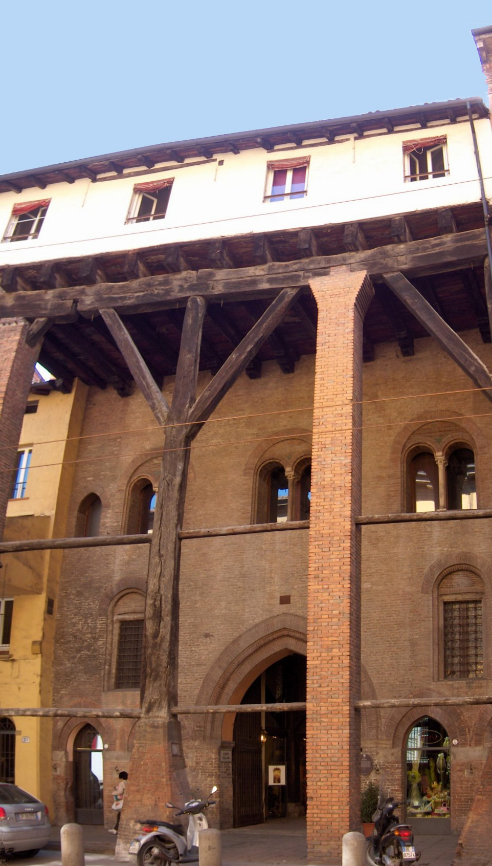 Casa Isolani, a 13th century house in Bologna, Italy. The third storey is supported by three high oak beam, forming a high portico.